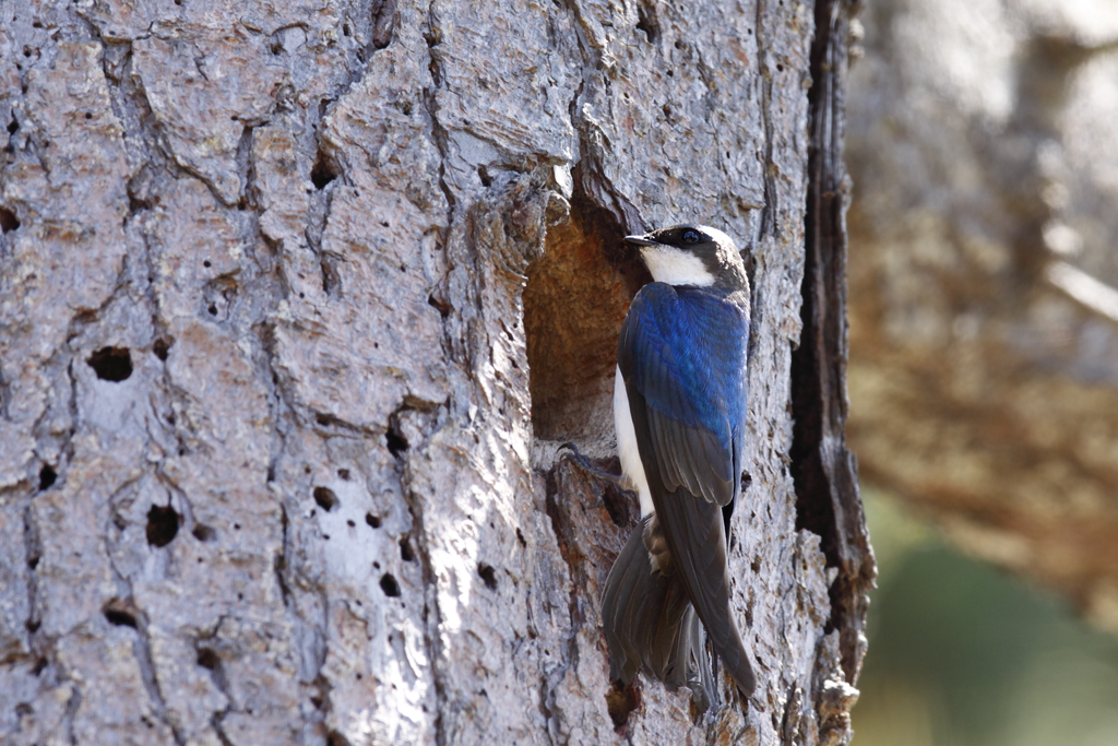 A Tree Swallow in California, USA. It is checking out a nesting hole in a tree vacated by a pair of Hairy Woodpeckers about two days previously.